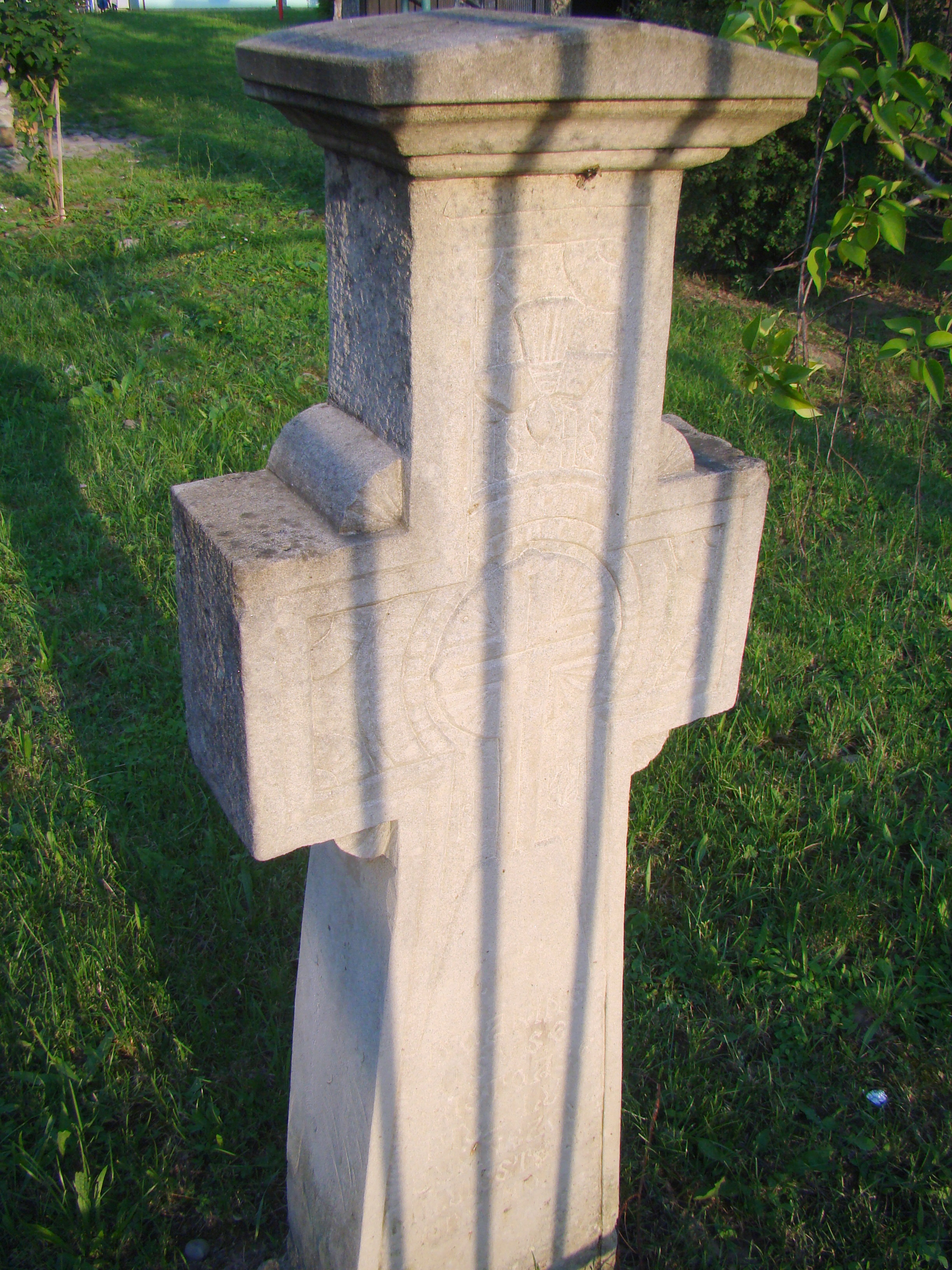 Wooden church in Covrigi, Gorj county, Romania (moved to Târgu Jiu)